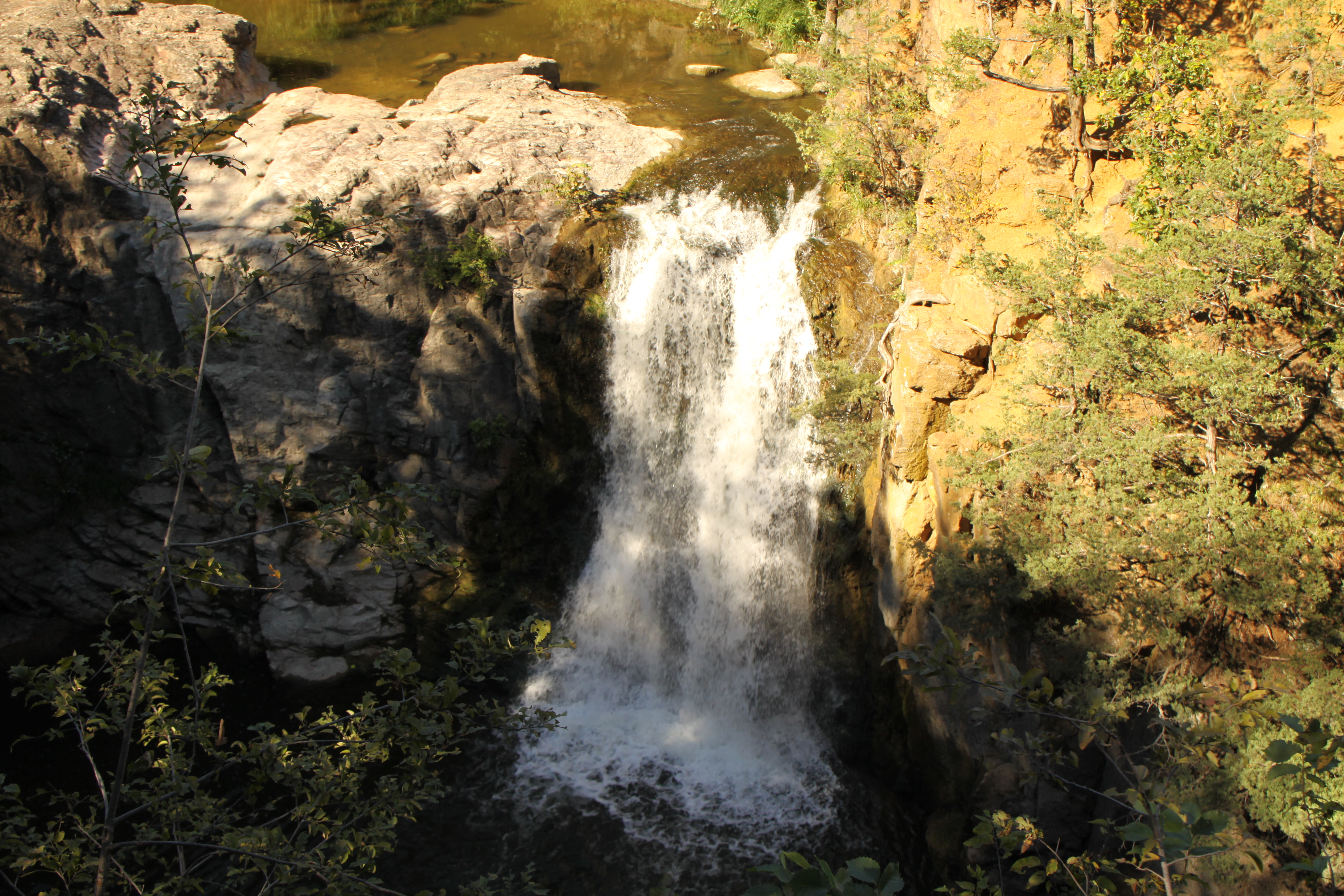 Ramsey Falls, Ramsey Park, Redwood Falls, Minnesota, USA